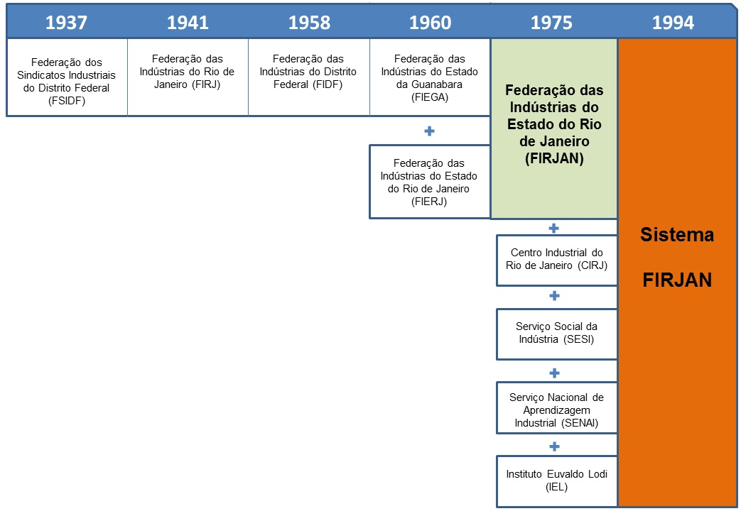 Cronologia das entidades que deram origem à FIRJAN.